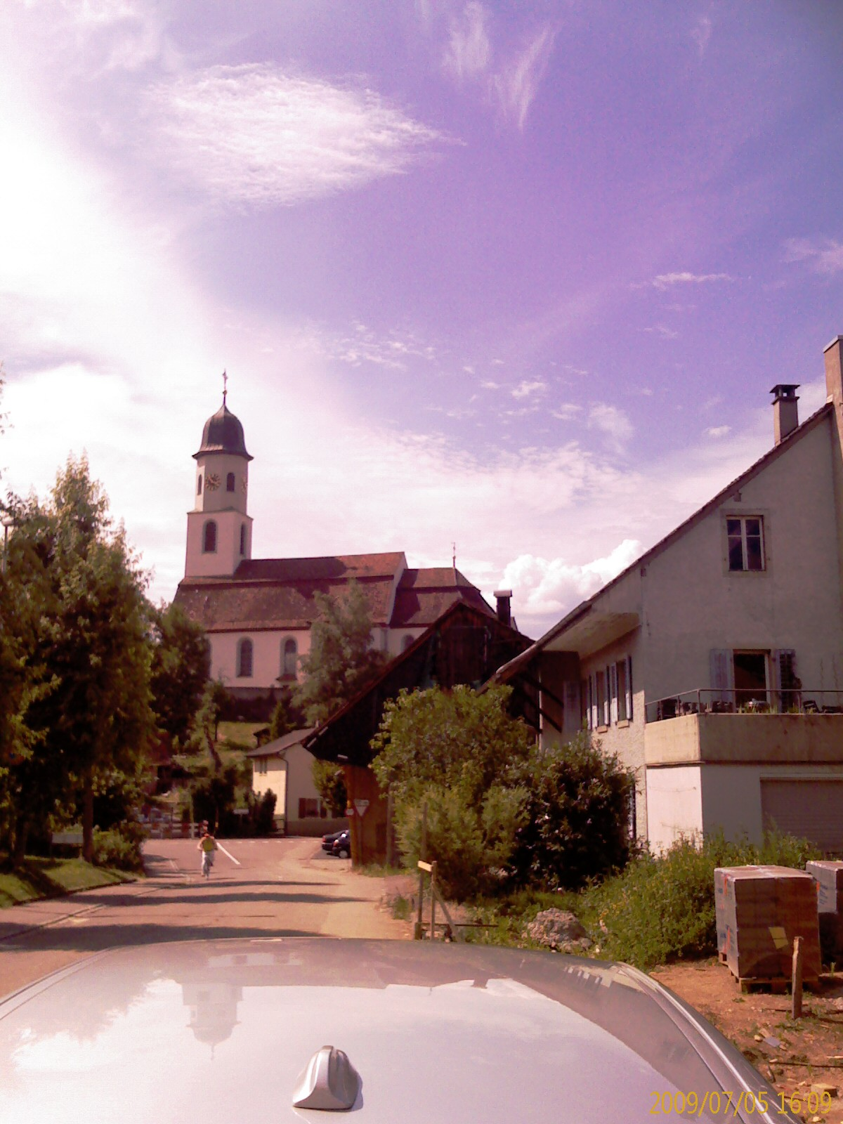 Church of Frick, canton of Aargau, SwitzerlandEsperanto: Preĝejo de Frick, Kantono Argovio, Svislando